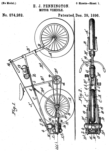 Drawing accompanying Edward J. Pennington's patent for a "Motor-Vehicle" (Motorcycle) Patent number: 574262, filing date: October 3, 1894, Issue date: December 29, 1896